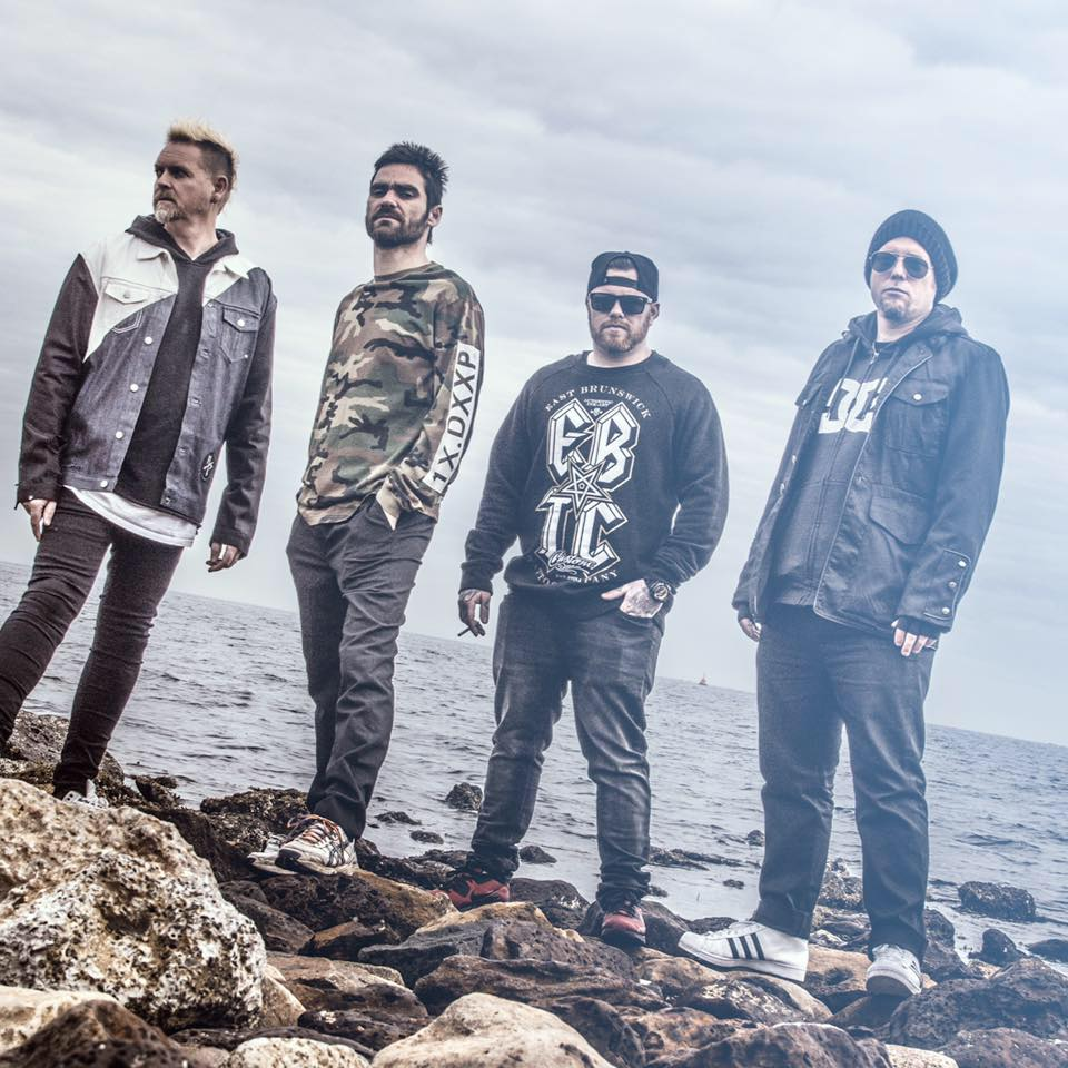 Superheist 2016 new lineup